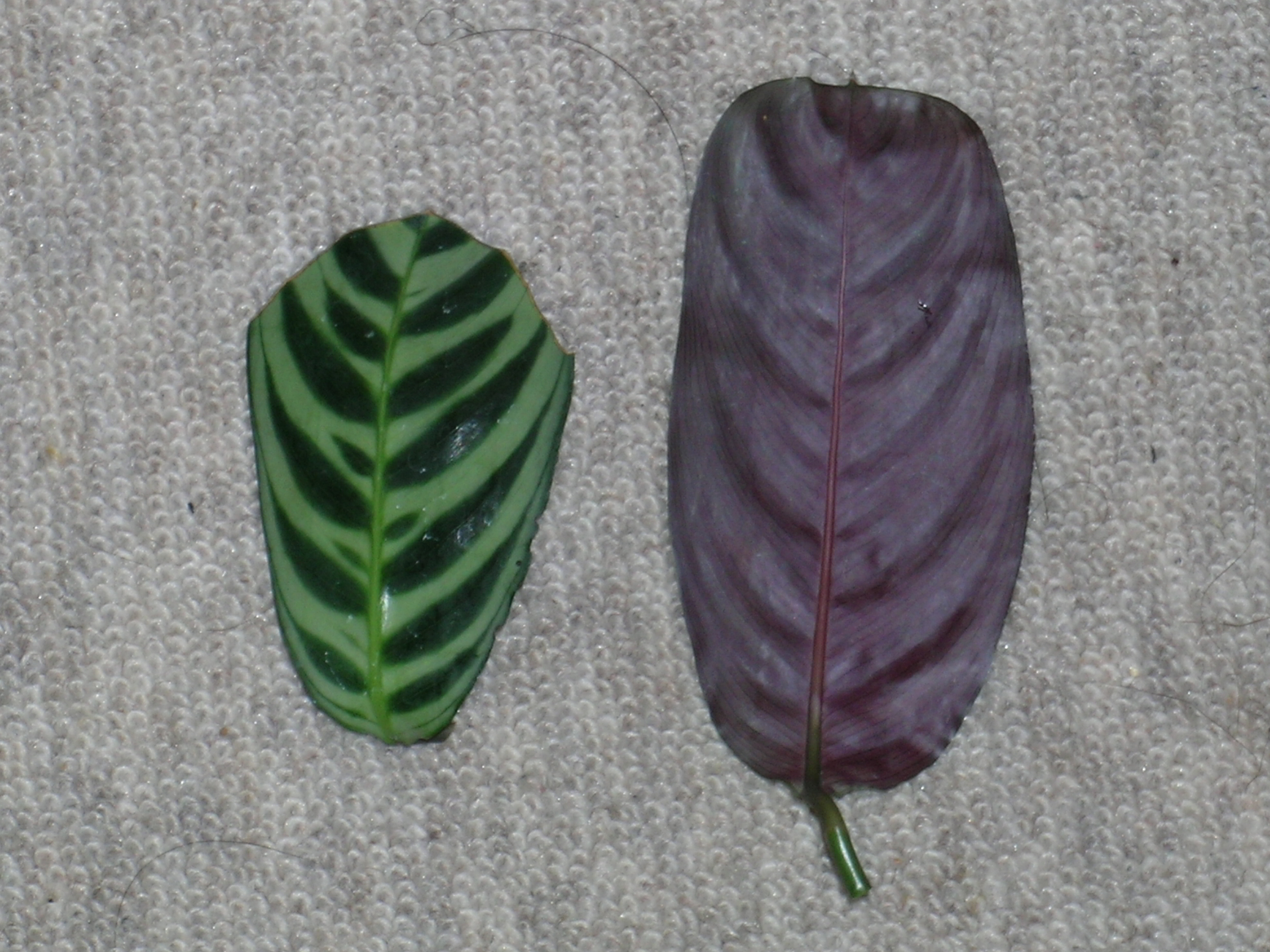 Leaves of ctenanthe. Left leaf is the front.Leaf right is the riverse side.